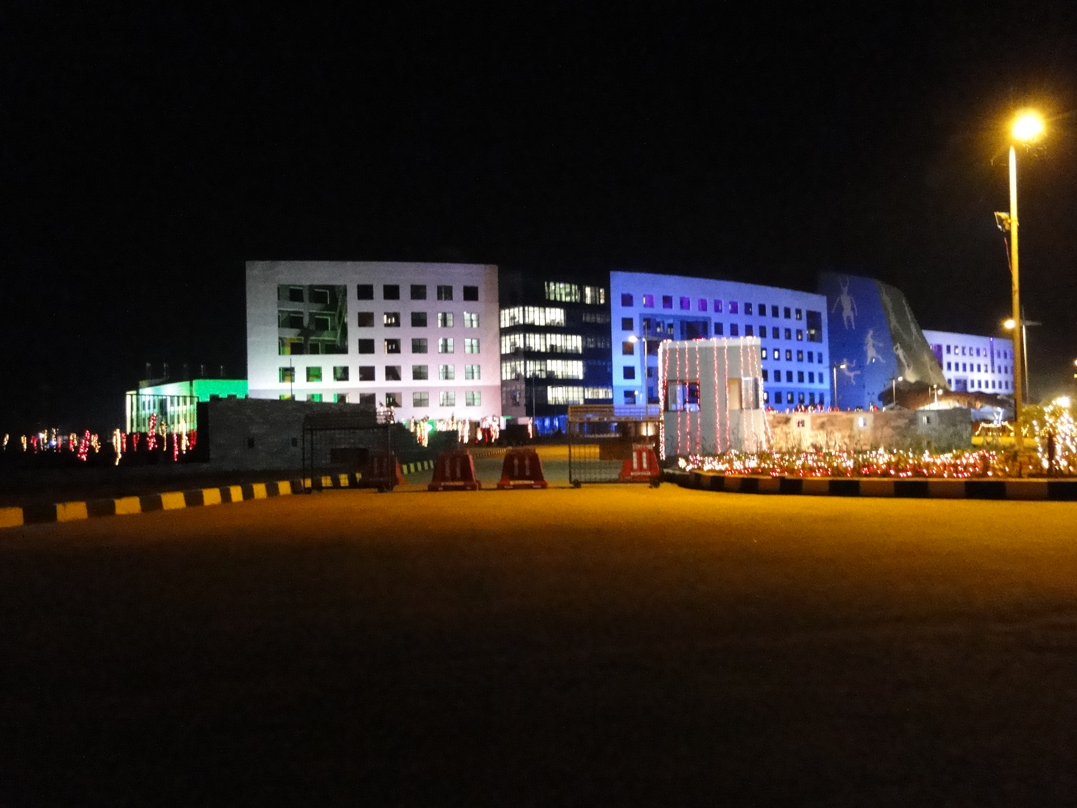 Secretariat in Naya Raipur, Chhattisgarh, India.